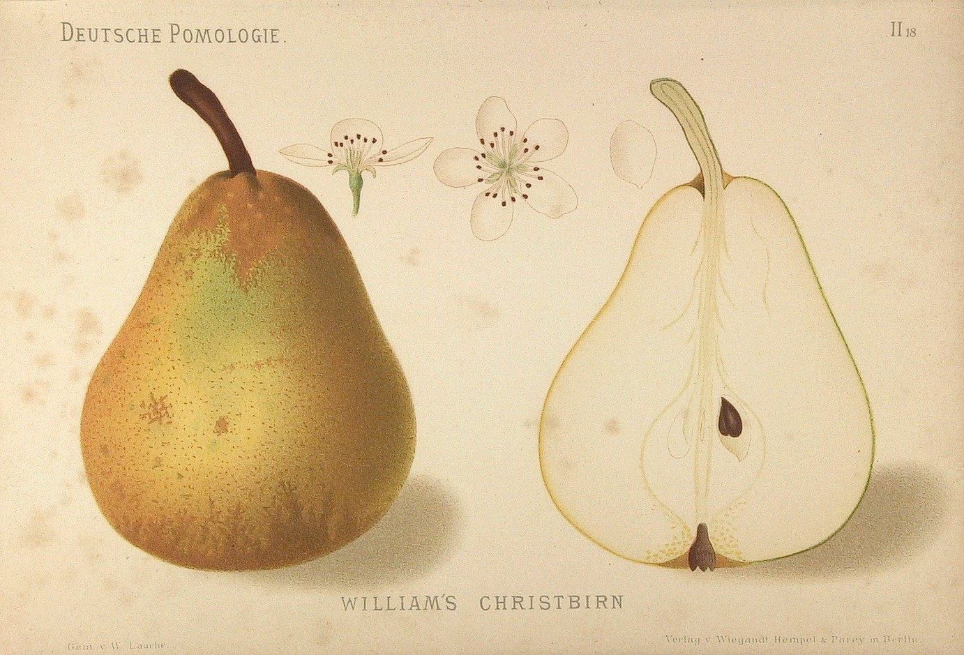 Page 18 from Deutsche Pomologie — Birnen, by Wilhelm Lauche, 1882. Published by Deutsche Pomologen-Vereins (German Pomological Society). Part of a series from the same book. The others can be found in Category:Deutsche Pomologie - Birnen Depicted pear cultivar: William's Christbirn